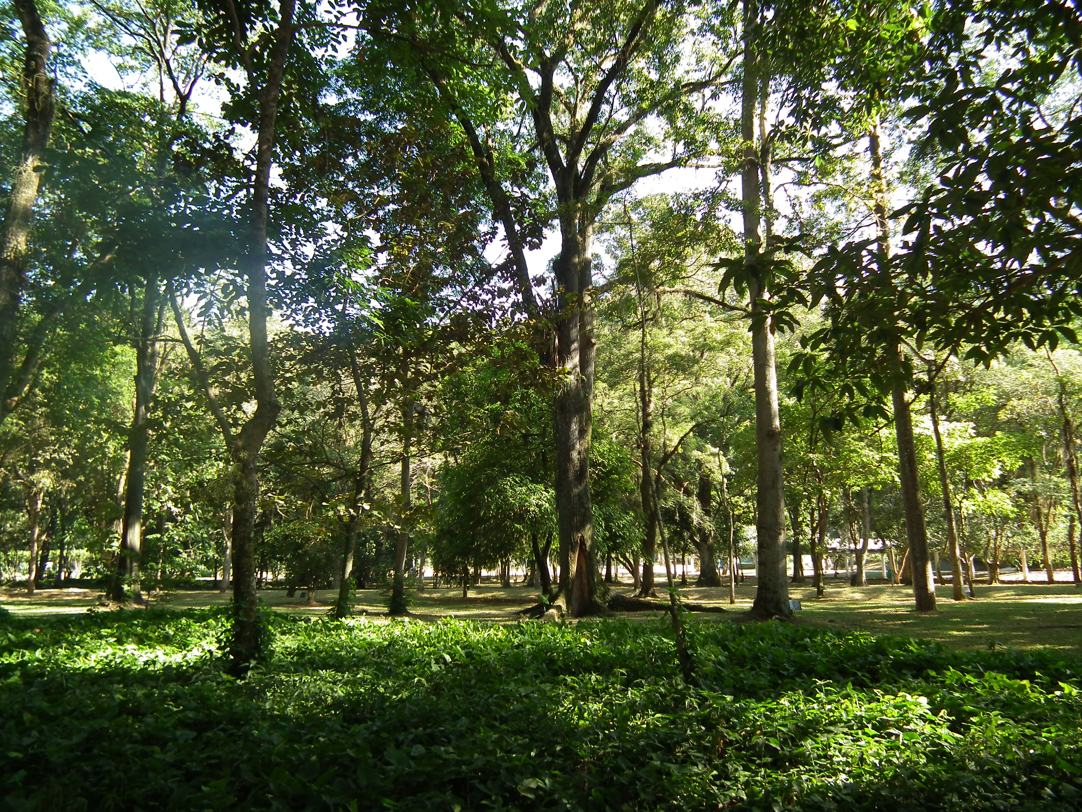 Botanical Garden of Rio de Janeiro, Brazil